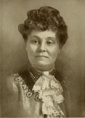 Florence Wyman-Richardson, Strauss Photo, Johnson, Anne (André) "Mrs. Charles P. Johnson", 1871-. Notable women of St. Louis, 1914; (Kindle Location 4402). [St. Louis, Woodward.]